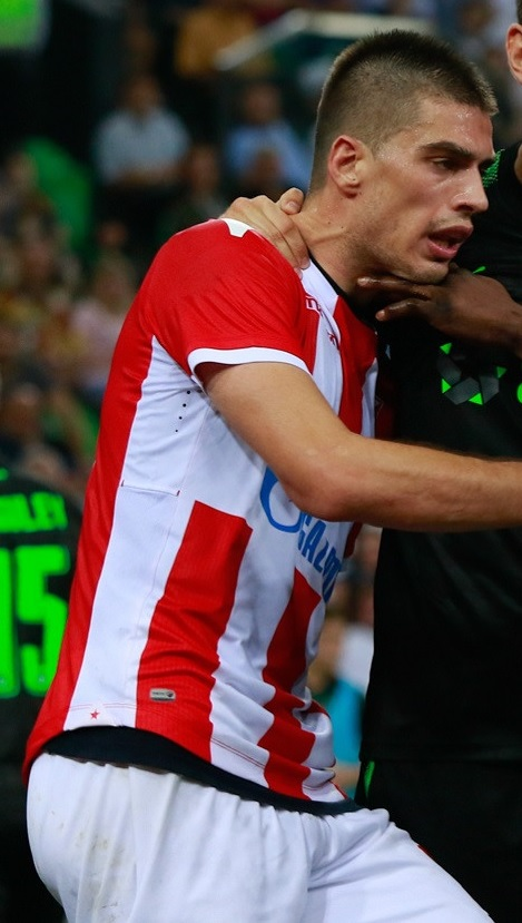 Vujadin Savić with FK Crvena Zvezda in an UEFA Europa League game against FC Krasnodar.